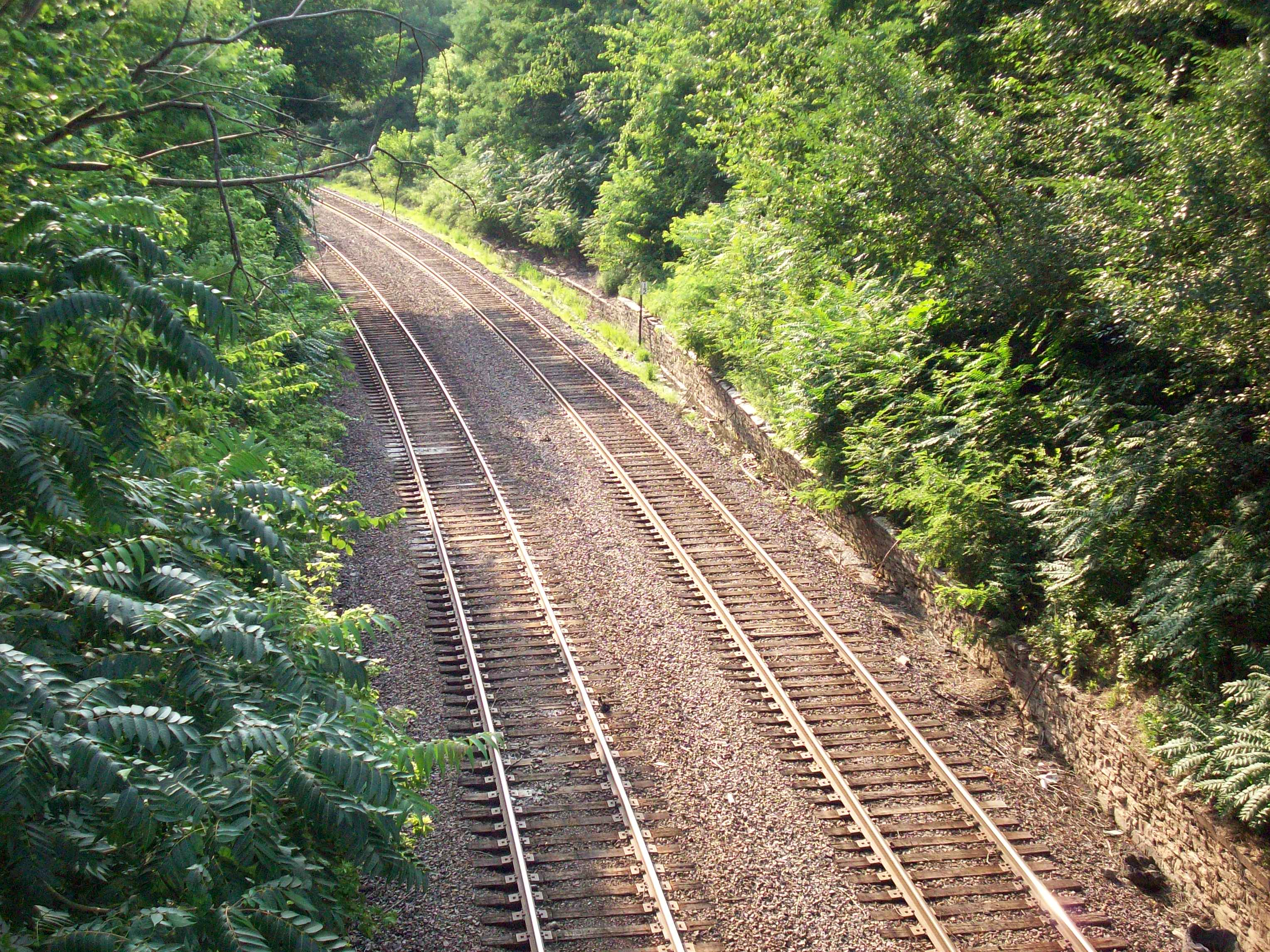 Railroad Cut that featured in the Second Battle of Independence, 1864